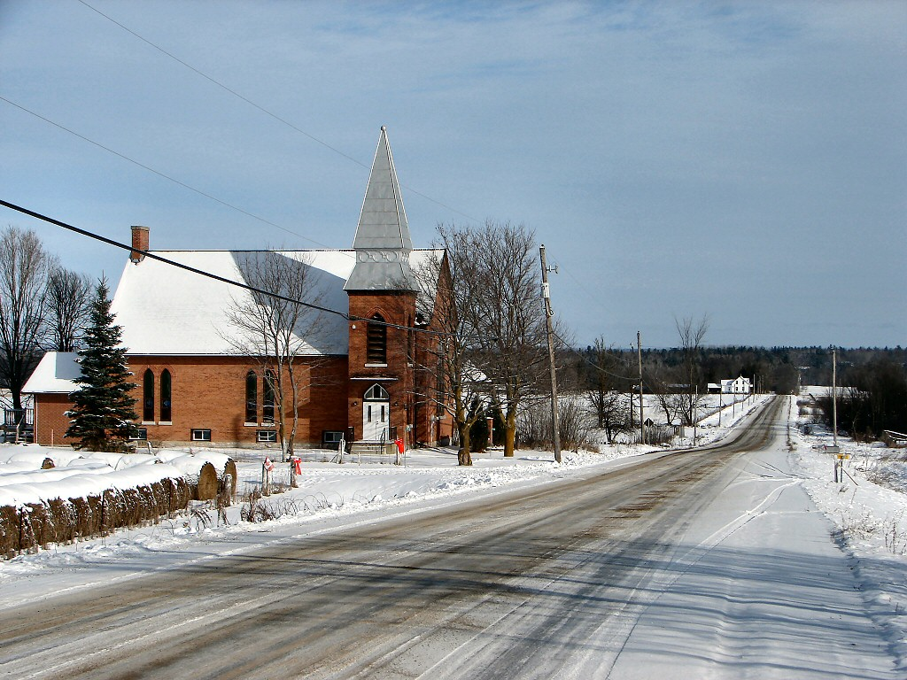 Lochwinnoch, McNab/Braeside municipality, Ontario, Canada